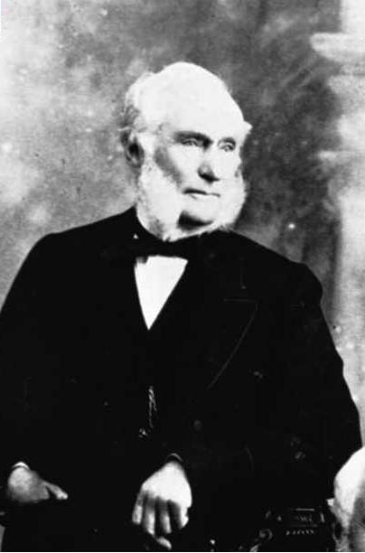 John Gardiner Austin (1812 - 1900), British Colonial Secretary of Hong Kong (1868 - 1878).